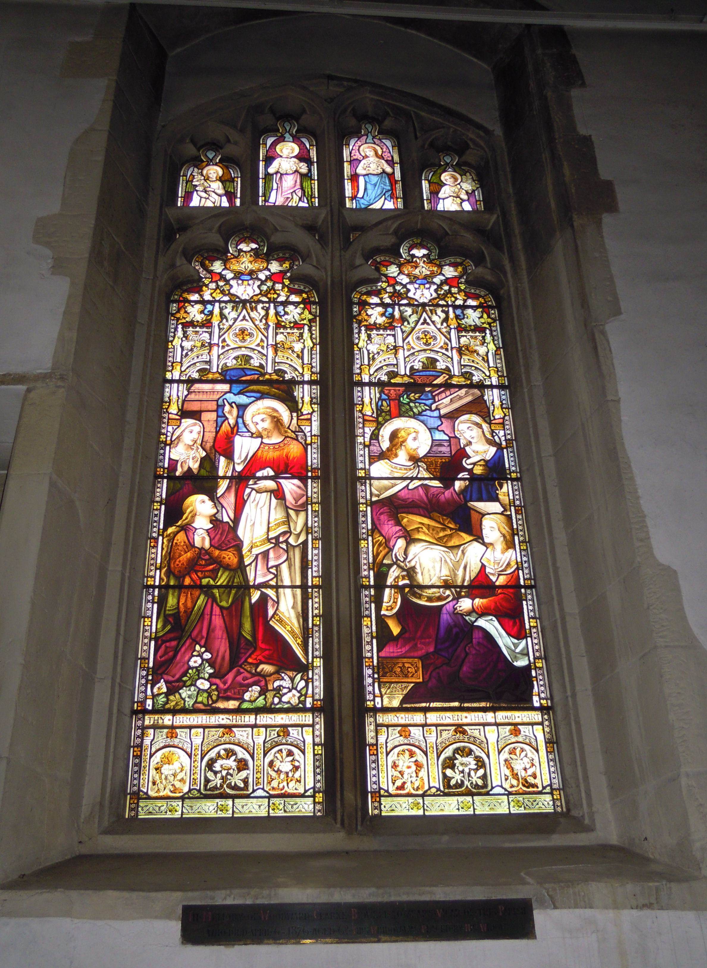 The West Bidwell memorial window of in the Church of St Mary the Virgin in Potton in Bedfordshire